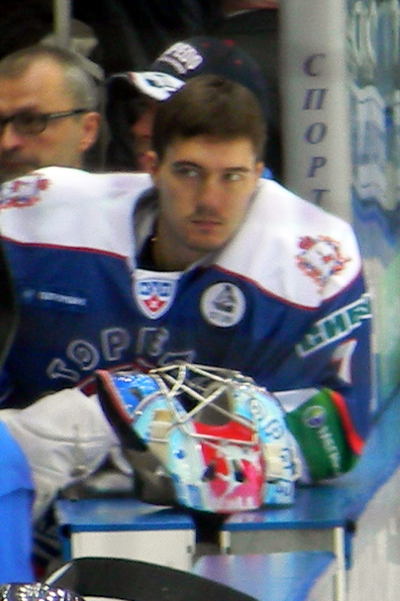 Nikita Bespalov, an ice-hockey goalkeeper from Torpedo Nizhny Novgorod in the game against Metallurg Magnitogorsk on 16th January, 2012